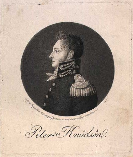 Andreas Peter Knudsen (1793-1865), Danish consul